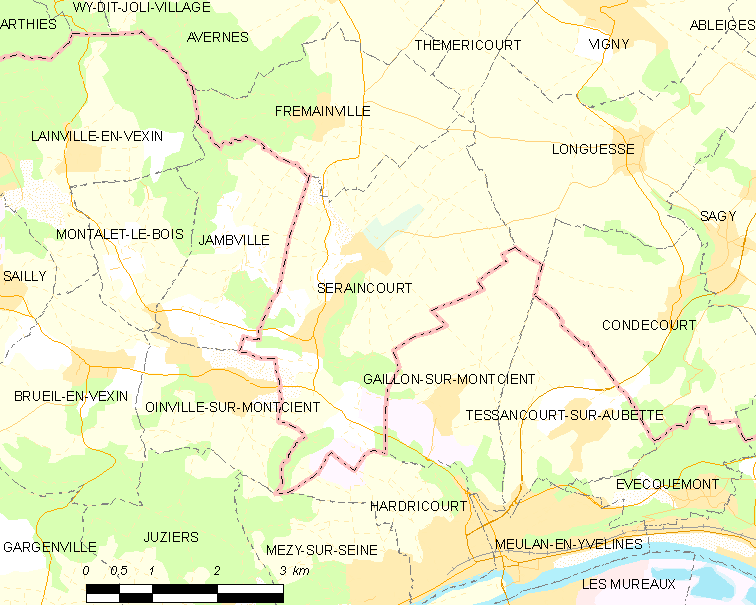 Map of French municipality Seraincourt